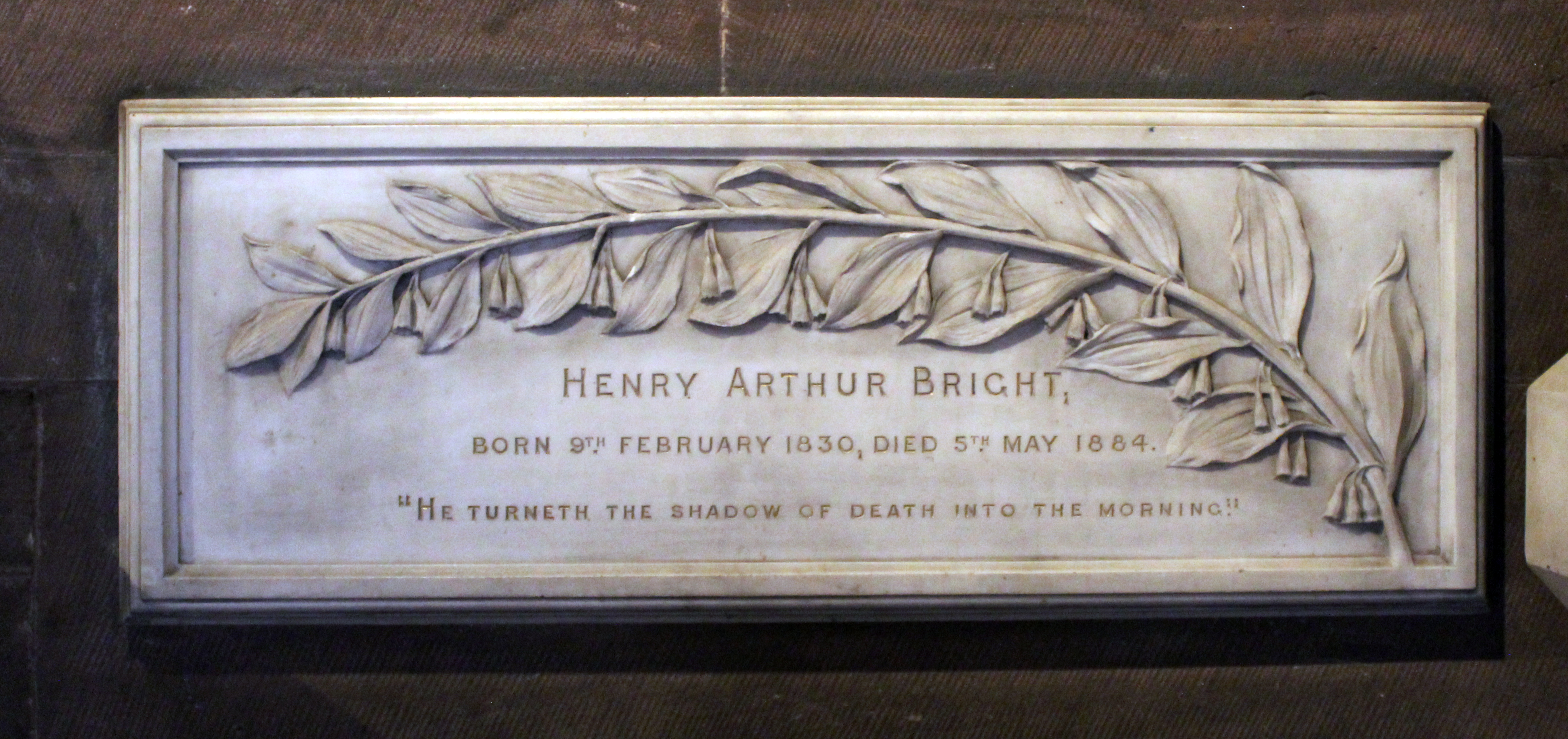 Memorial to merchant and author Henry Arthur Bright in Ullet Road Unitarian church